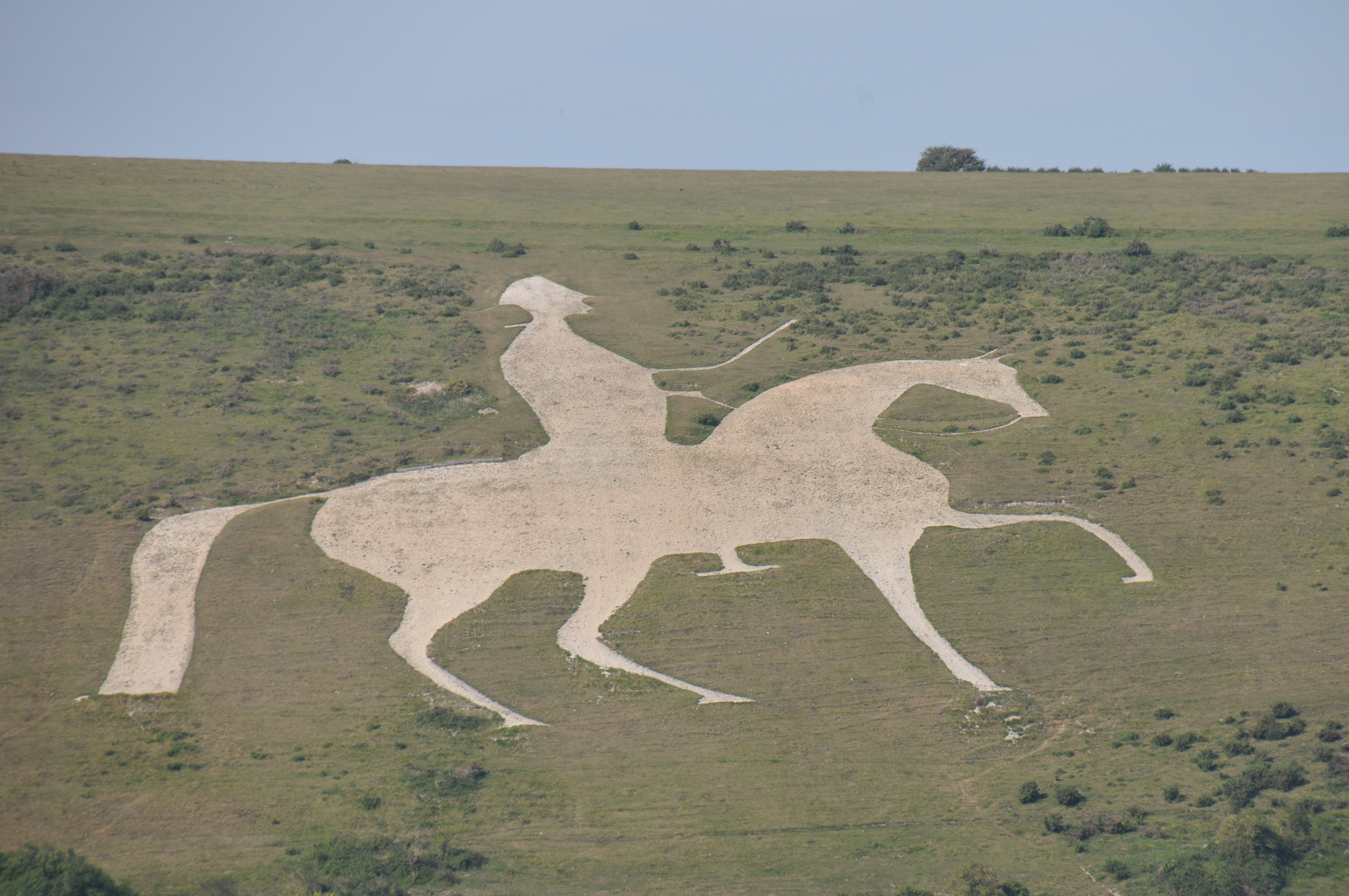 The Osmington White Horse, a hill figure in Dorset carved in 1808 in honor of King George III.